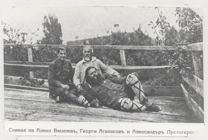 bulgarian revolutionaries from IMRO Aleko Vasilev - Pasha (right), Aleksander Protogerov (middle) and Georgi Atanasov (left)